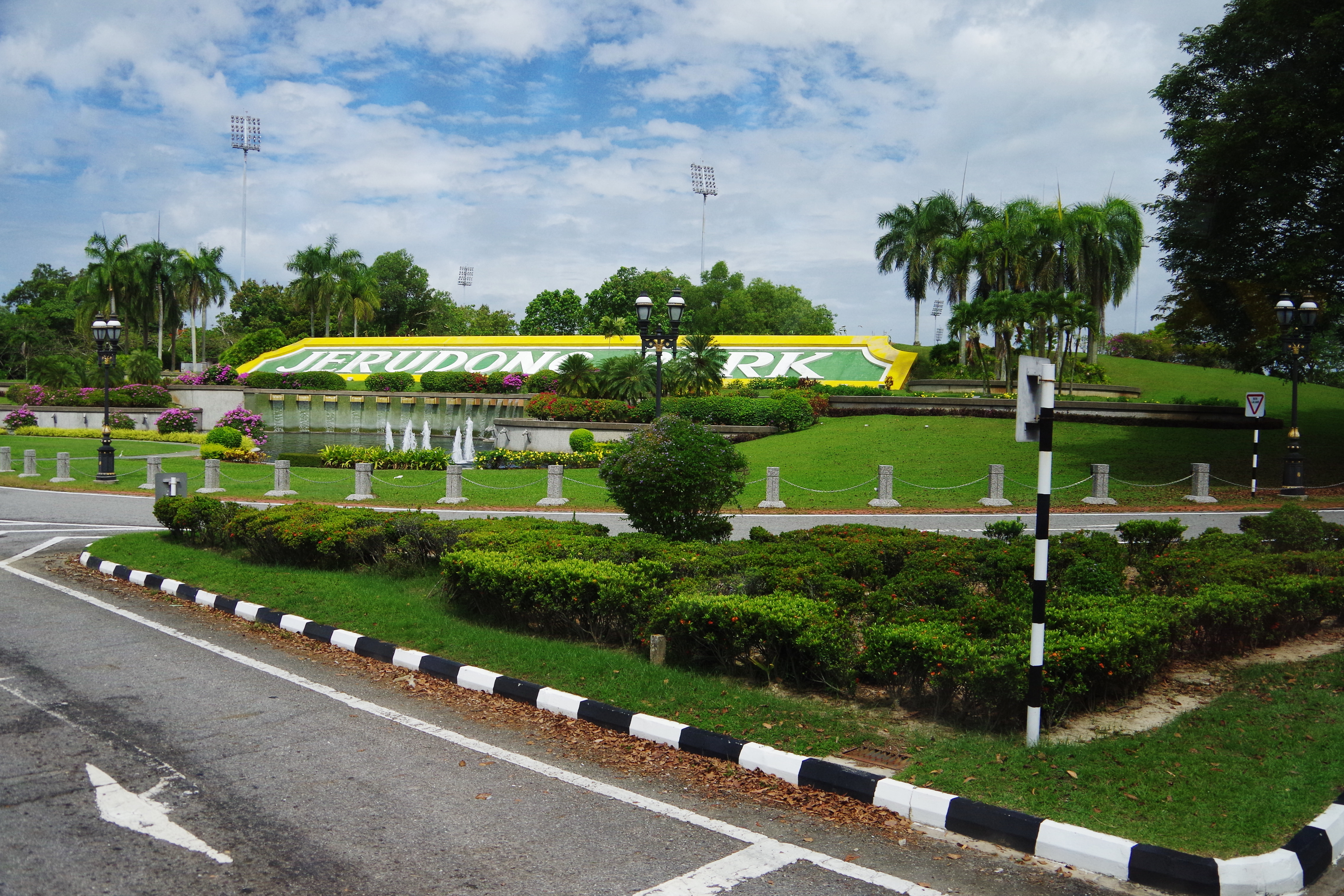 Jerudong Royal Polo Park — Brunei.